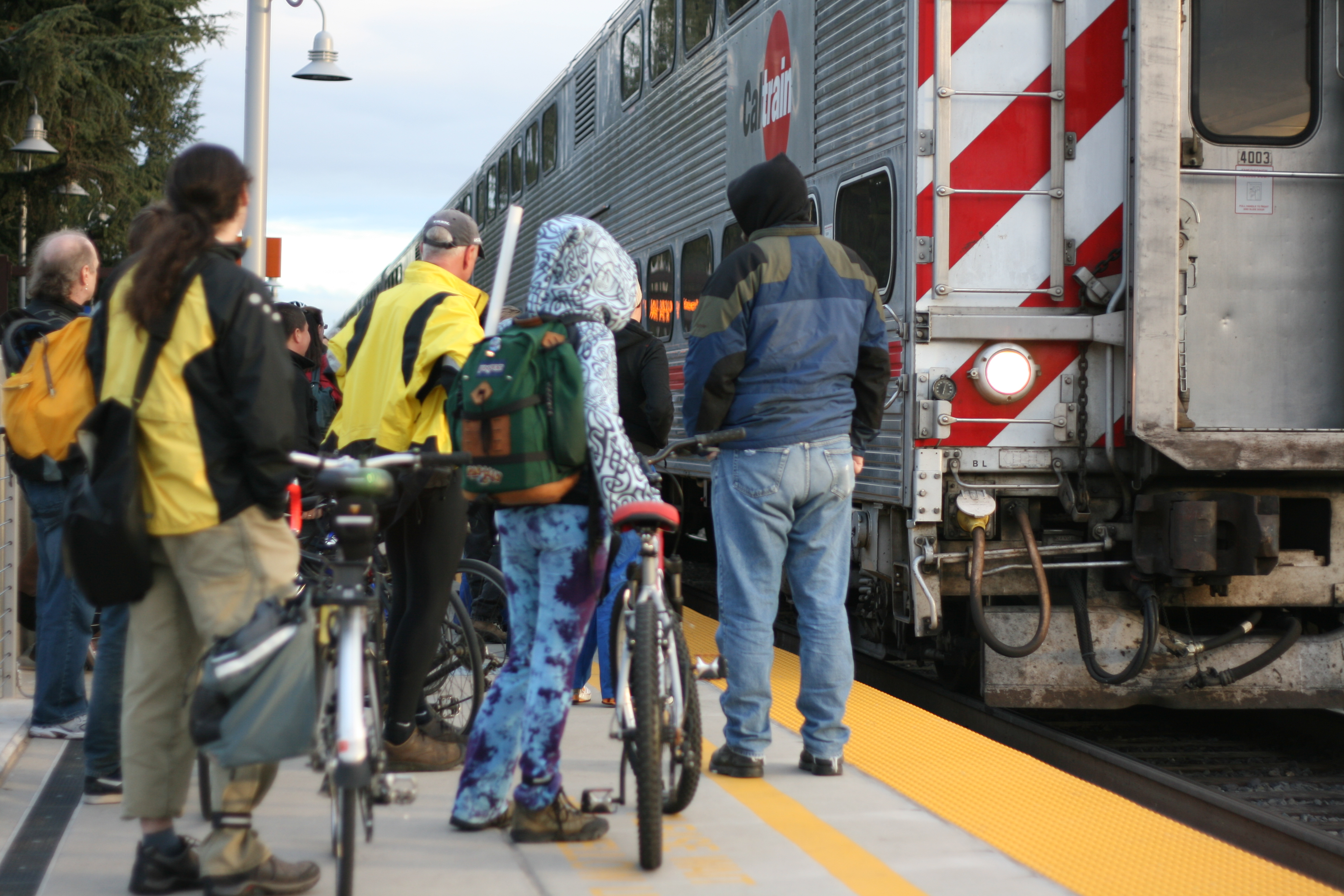 Bike riders waiting for the arriving Caltrain train at the Palo Alto-University Ave station.